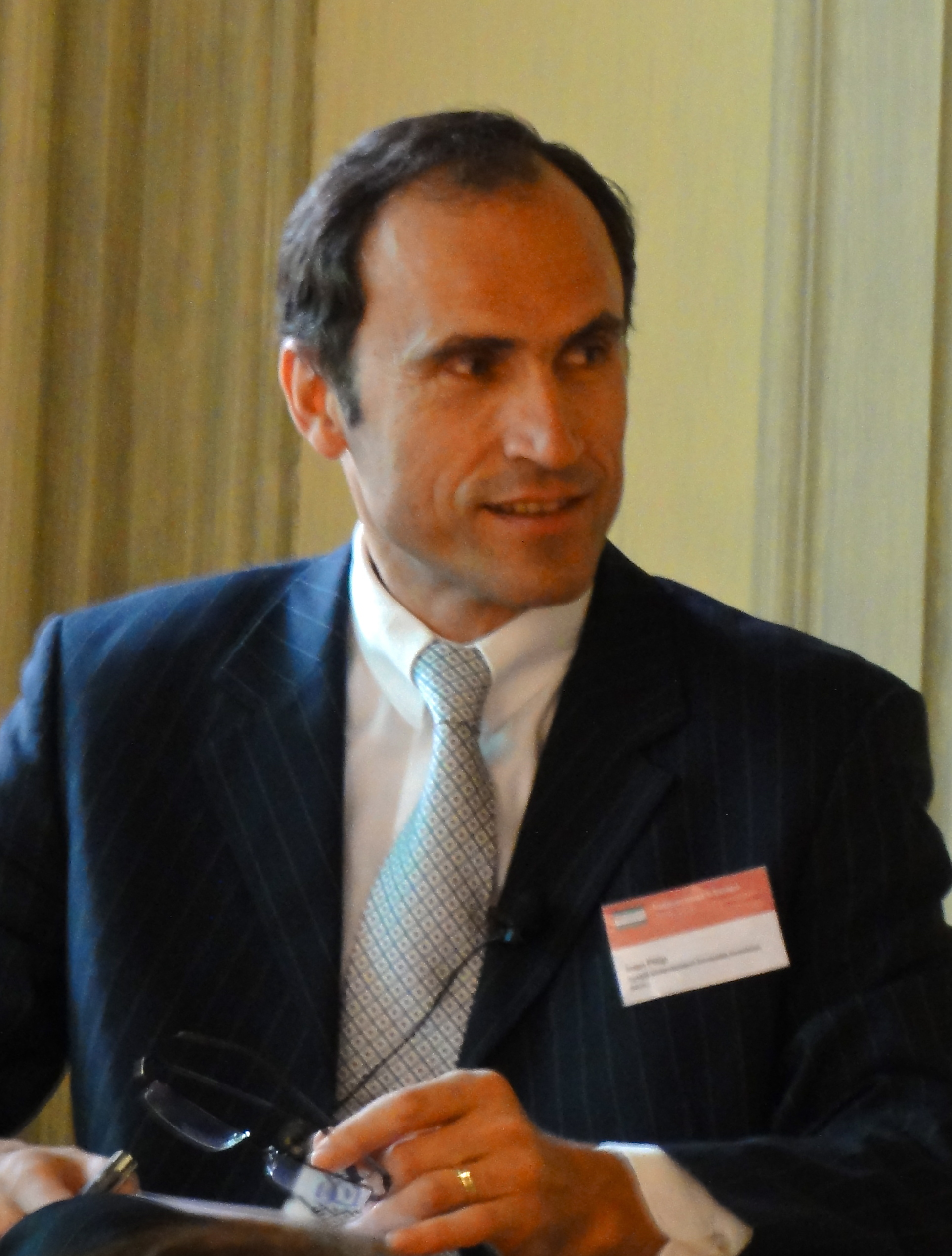 Ivan Pilip at a conference "Federalism and Europe" held by Václav Havel Library at the University of New York in Prague.